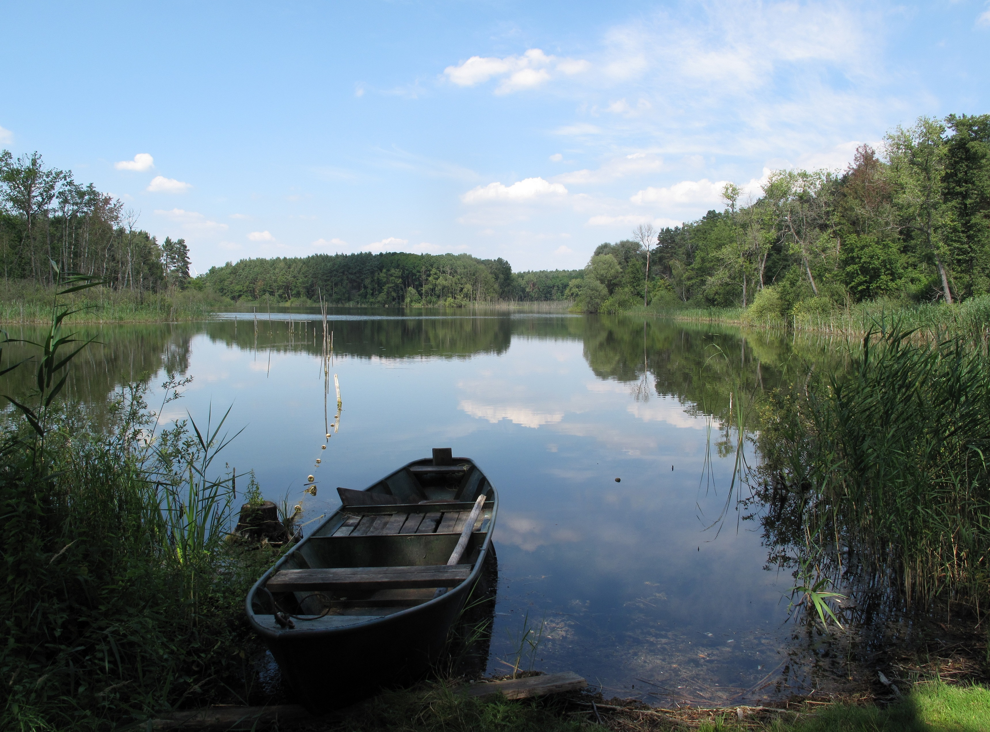 View from the southeastern shore of the Premsdorfer See to north. The Premsdorfer See is a lake in the village Görsdorf, a part (german: Ortsteil) of the municipality Tauche in the District Oder-Spree, Brandenburg, Germany. The lake covers 14 hectare and is situated in the Dahme-Heideseen Nature Park. The long-drawn groove lake is, seen from the north, the fourth water of a five-part chain of lakes, which is connected by the Blabbergraben. The Blabbergraben drains the lakes to the south into the river Spree.